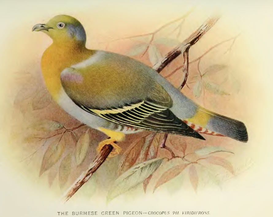 Treron phoenicopterus viridifrons